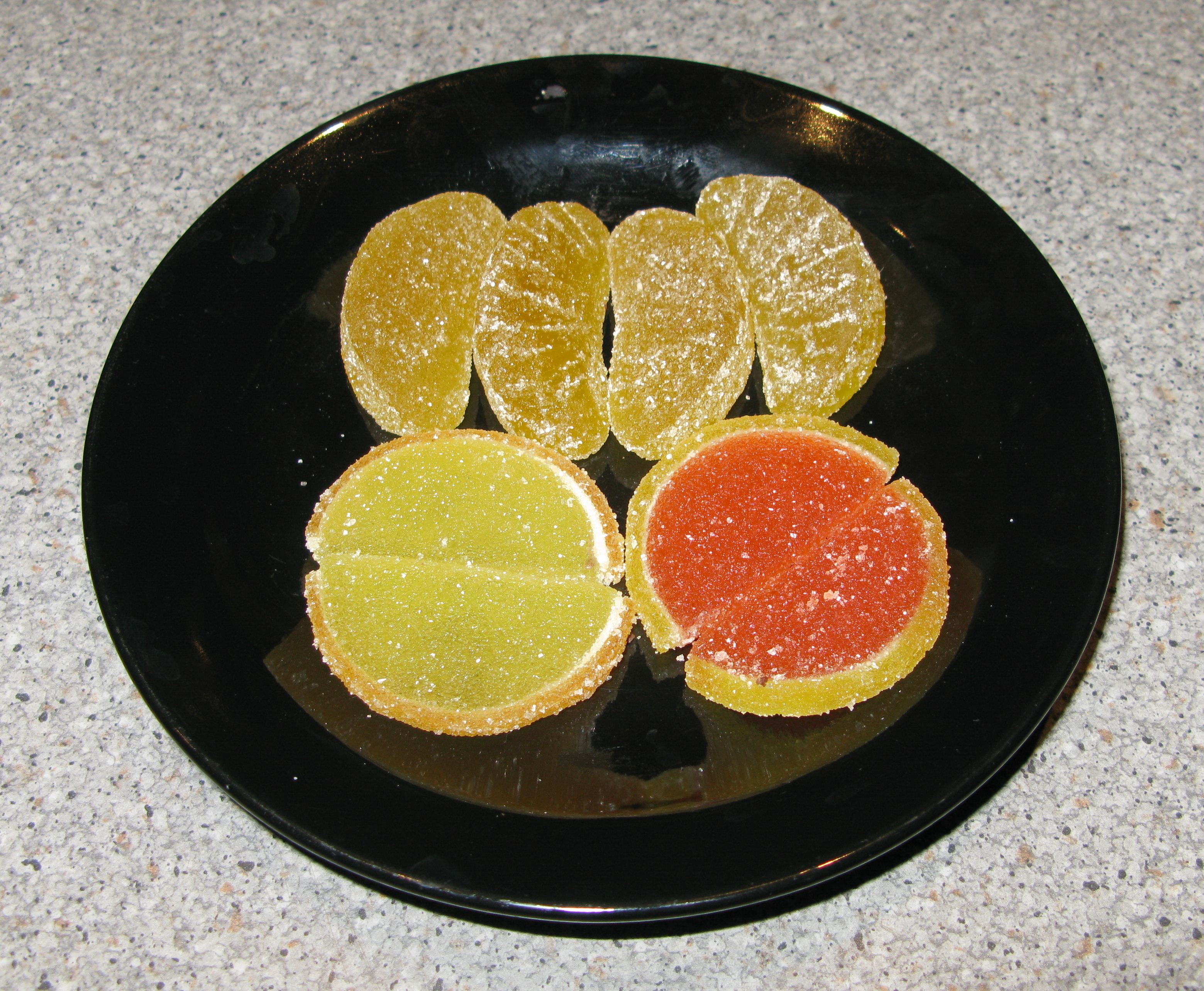 Russian hard marmalade, casted in the shape of lemon slices.